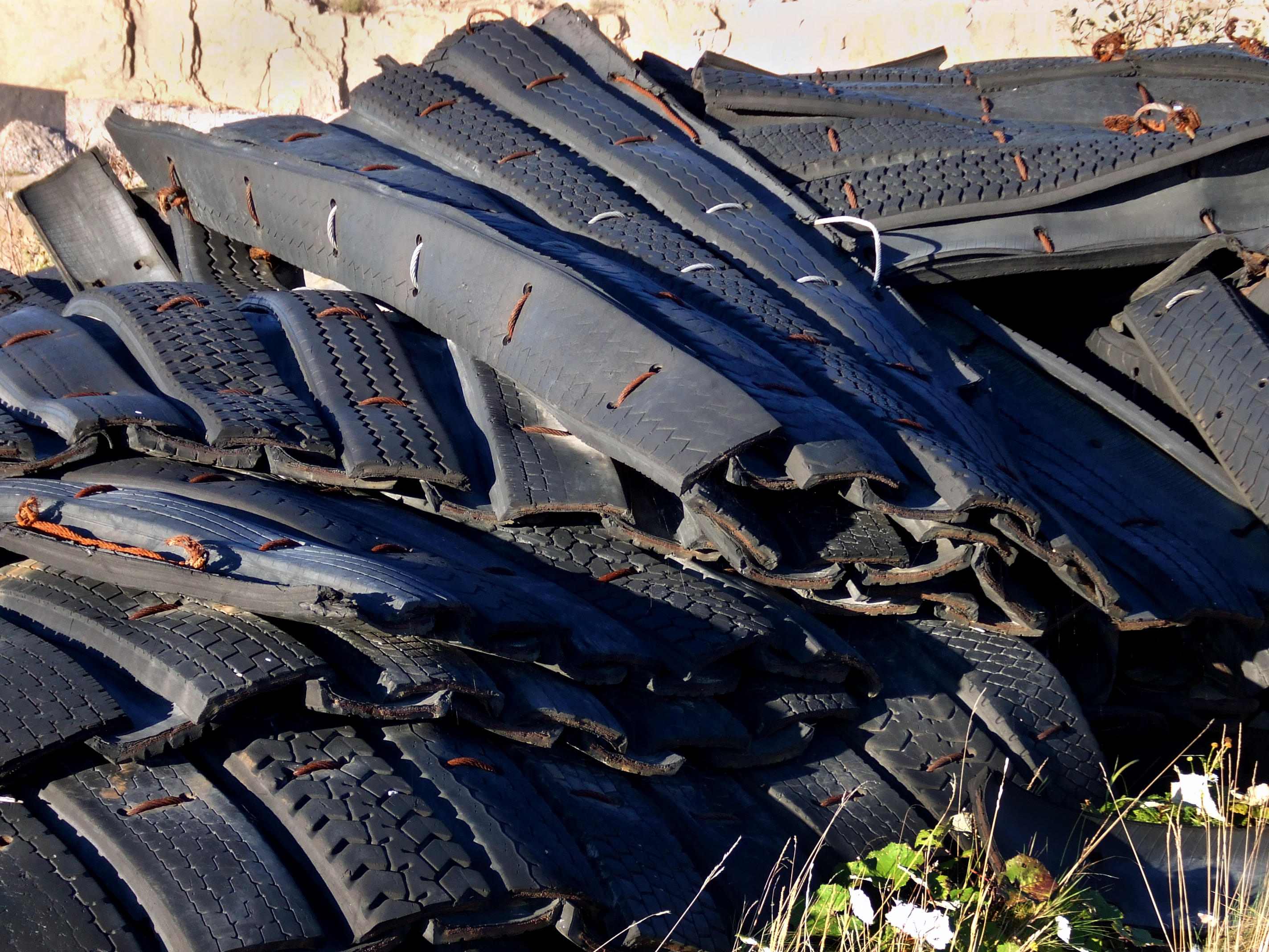 Tire blasting mats at Rixö abandoned granite quarry, Lysekil, Sweden